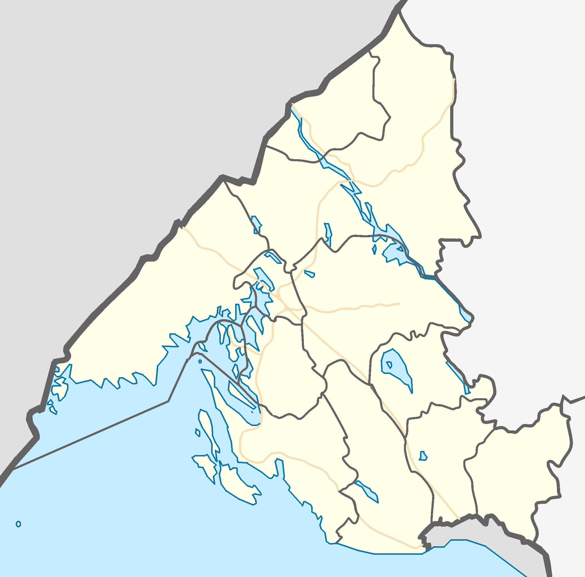 Map of Vyborgsky district of Leningrad region